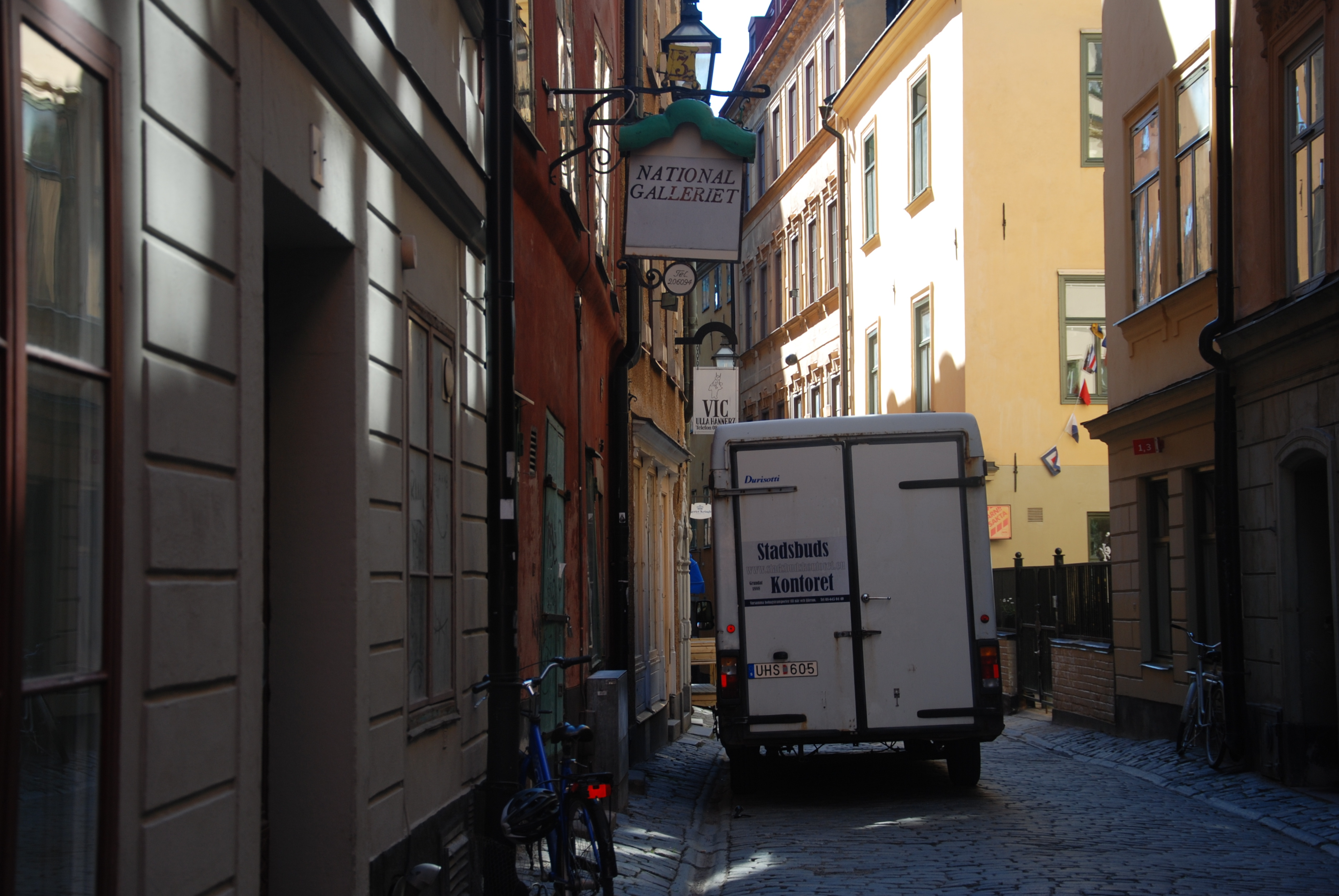 Nationalgalleriet June 2011